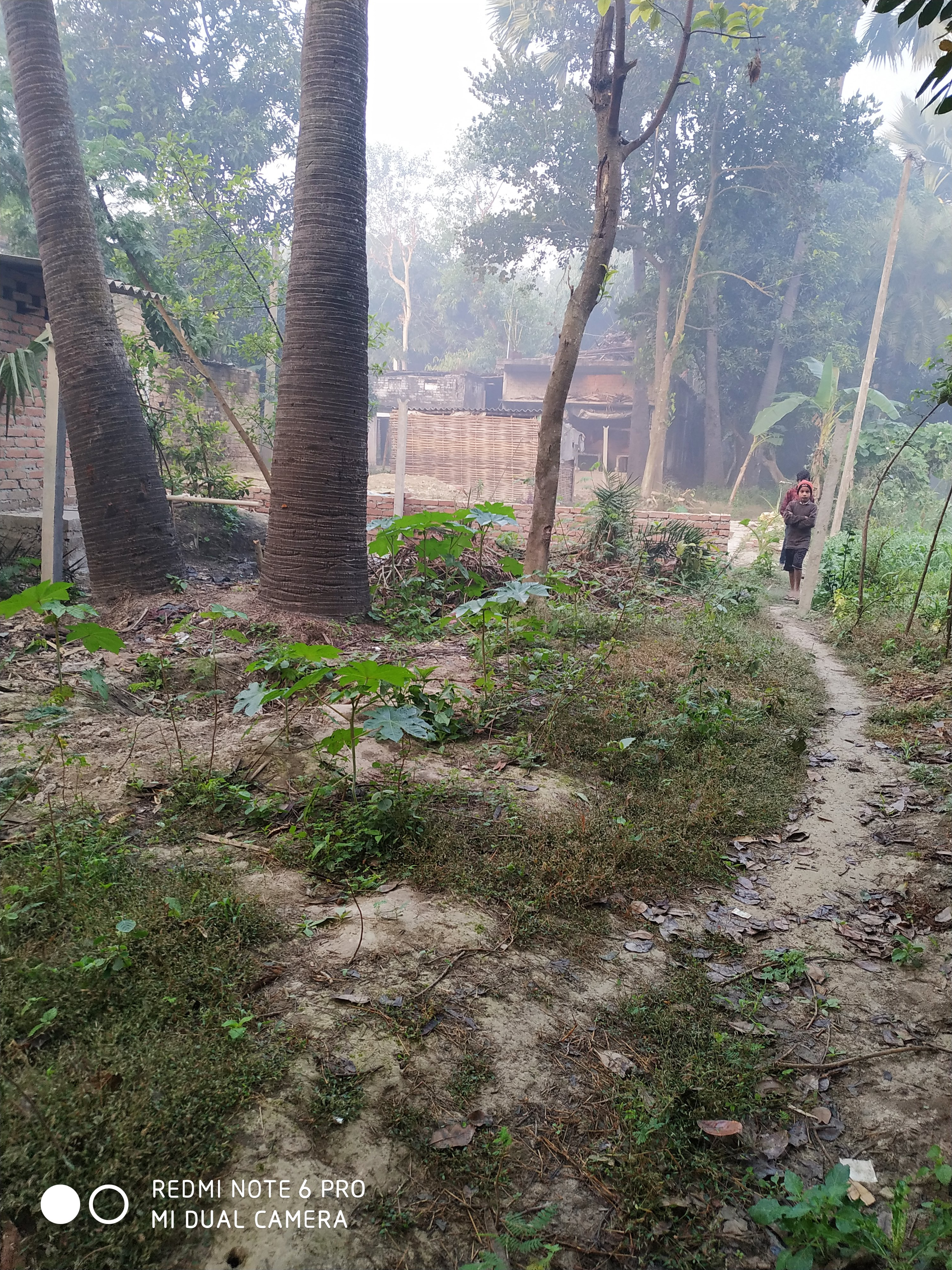 Masjid (Madina Masjid) land site, Gorgama Village, Shahpur Patory, Samastipur, Bihar (photo taken on 3rd December 2019).